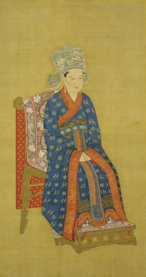 The Official Imperial Portrait of Song Dynasty's Empresses